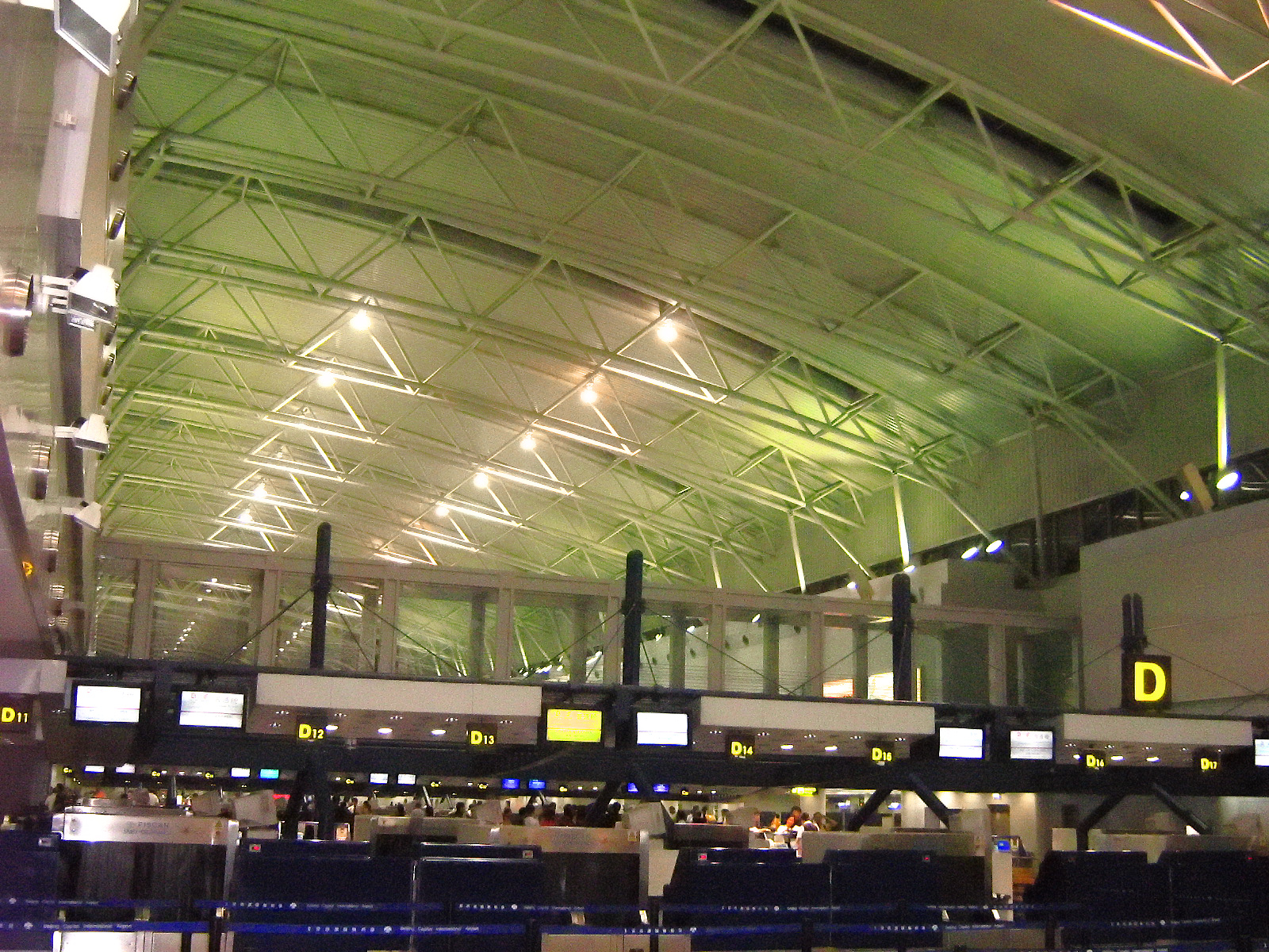 Departure Hall of Beijing Capital International Airport Terminal 2